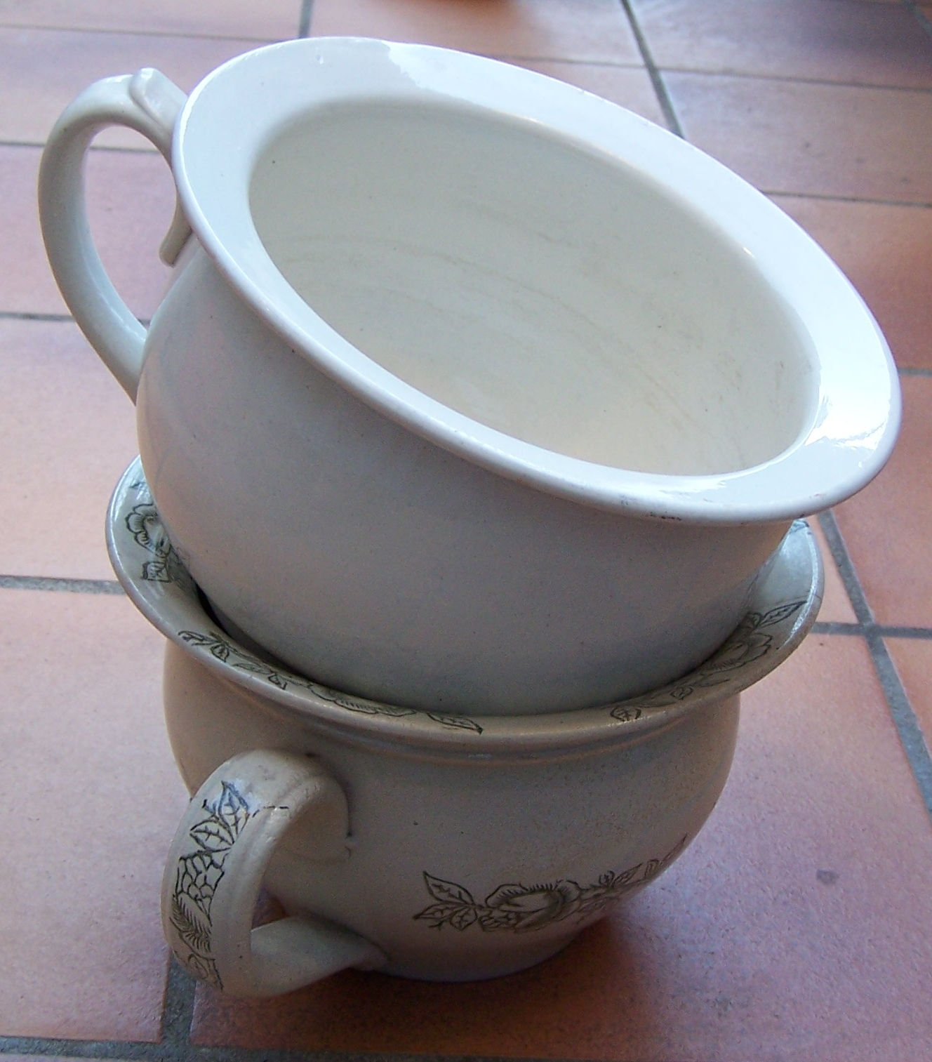 A white chamber pot with a decorated chamber pot.